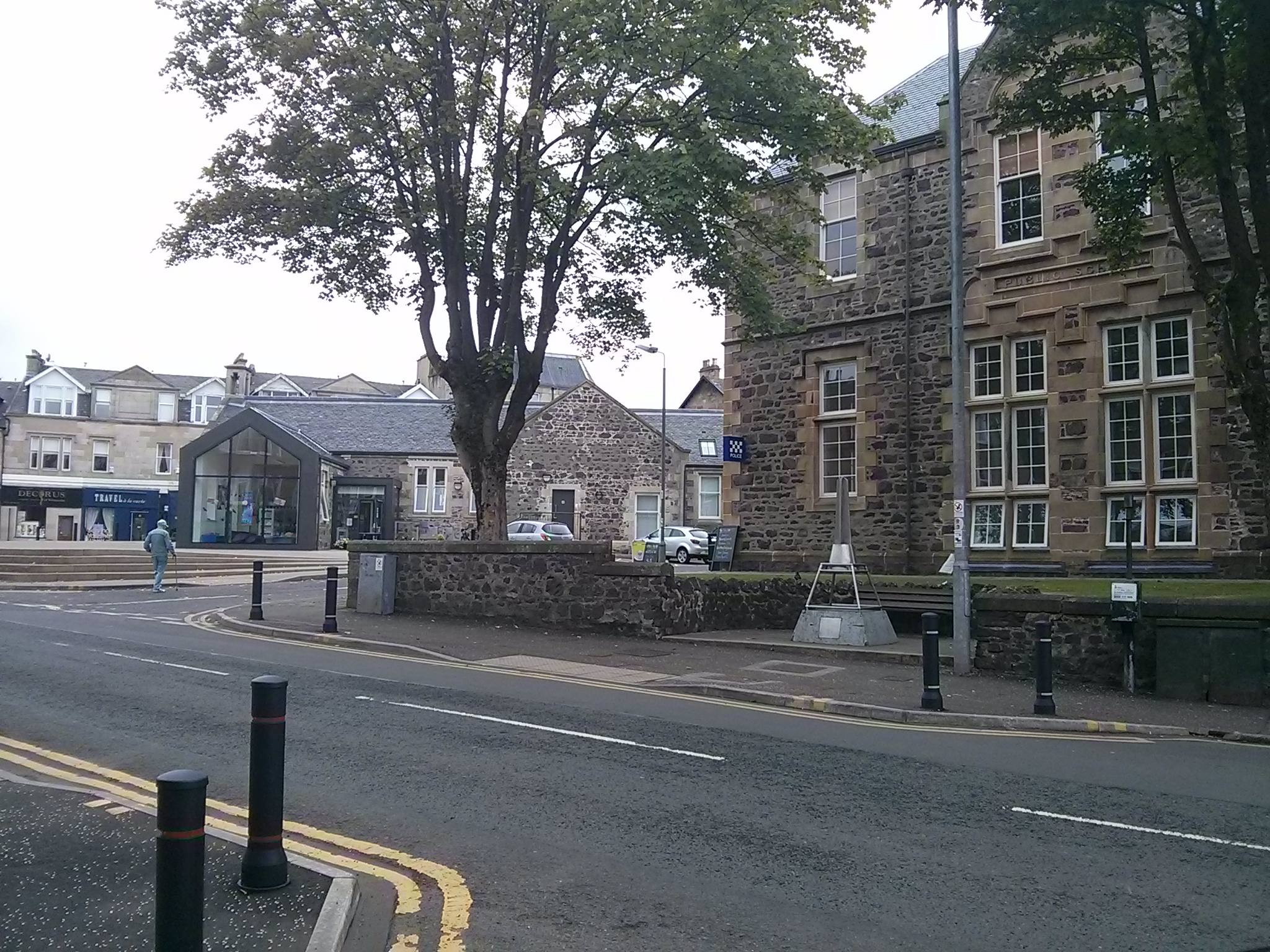 Kilmacolm village centre in Renfrewshire, UK. The single-storey building is the Grade C listed former primary school.